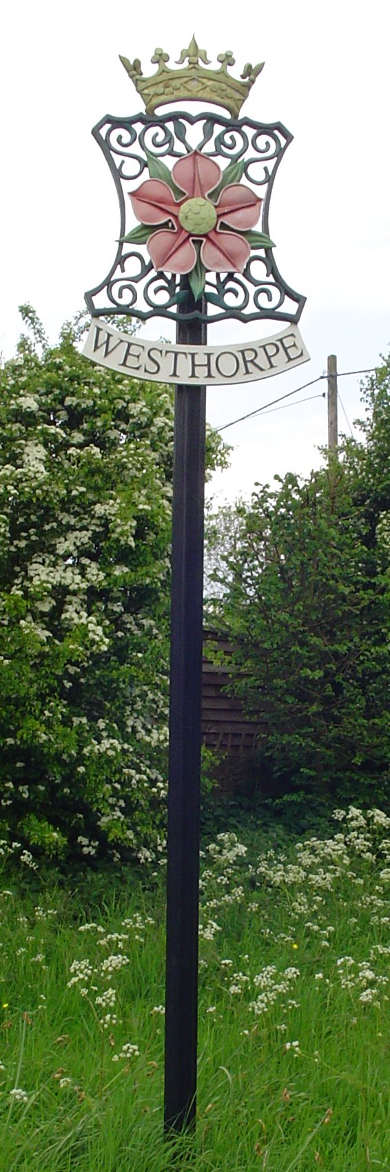 Signpost in Westhorpe